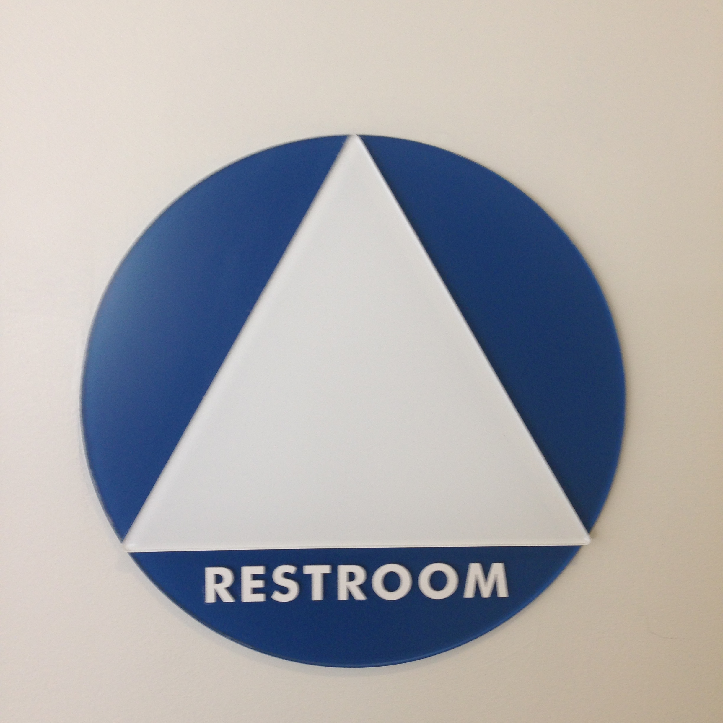 This example of a gender neutral bathroom sign is on the campus of UCSD.